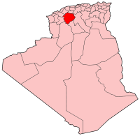 Map of Algeria showing Tiaret province.